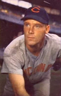 Cincinnati Reds pitcher Herm Wehmeier. Colors balanced slightly.